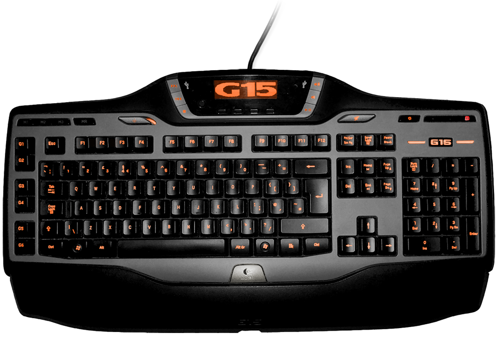 Logitech G15 Keyboard (2007)